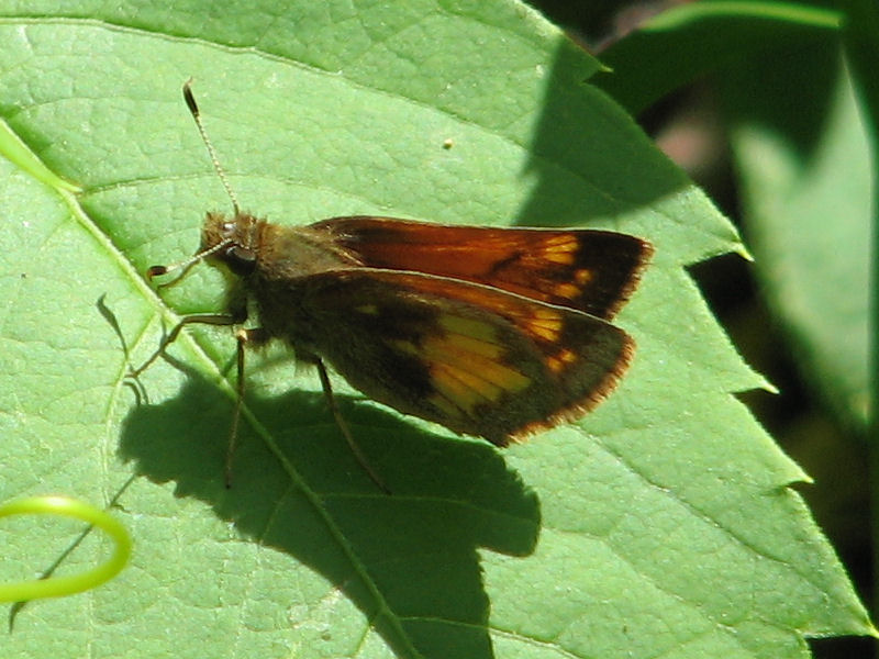 Hobomok Skipper (Poanes hobomok) taken in Mer Bleue Conservation Area, Ottawa, Ontario